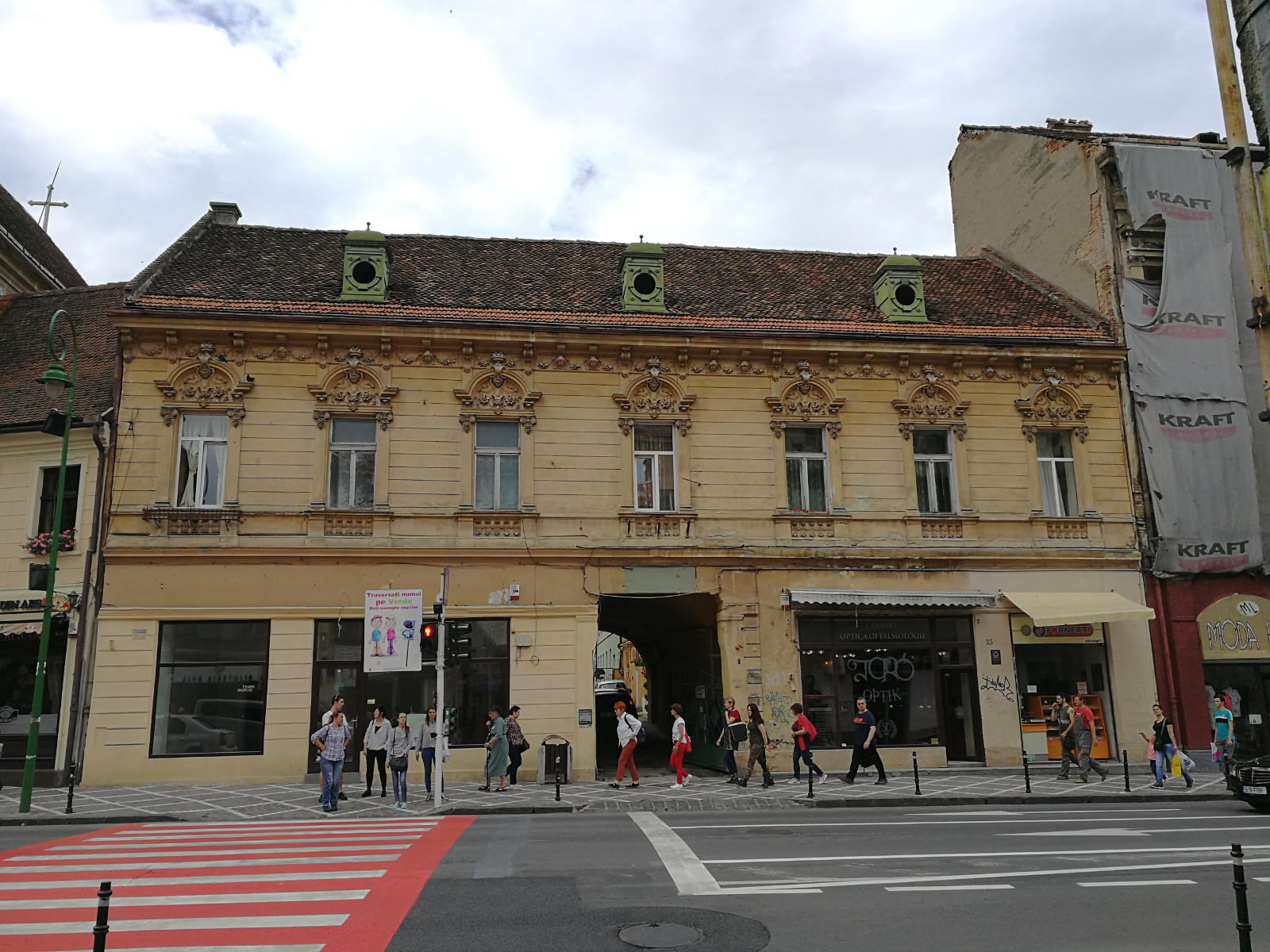 Str Muresenilor, house number 25, Brasov, Romania